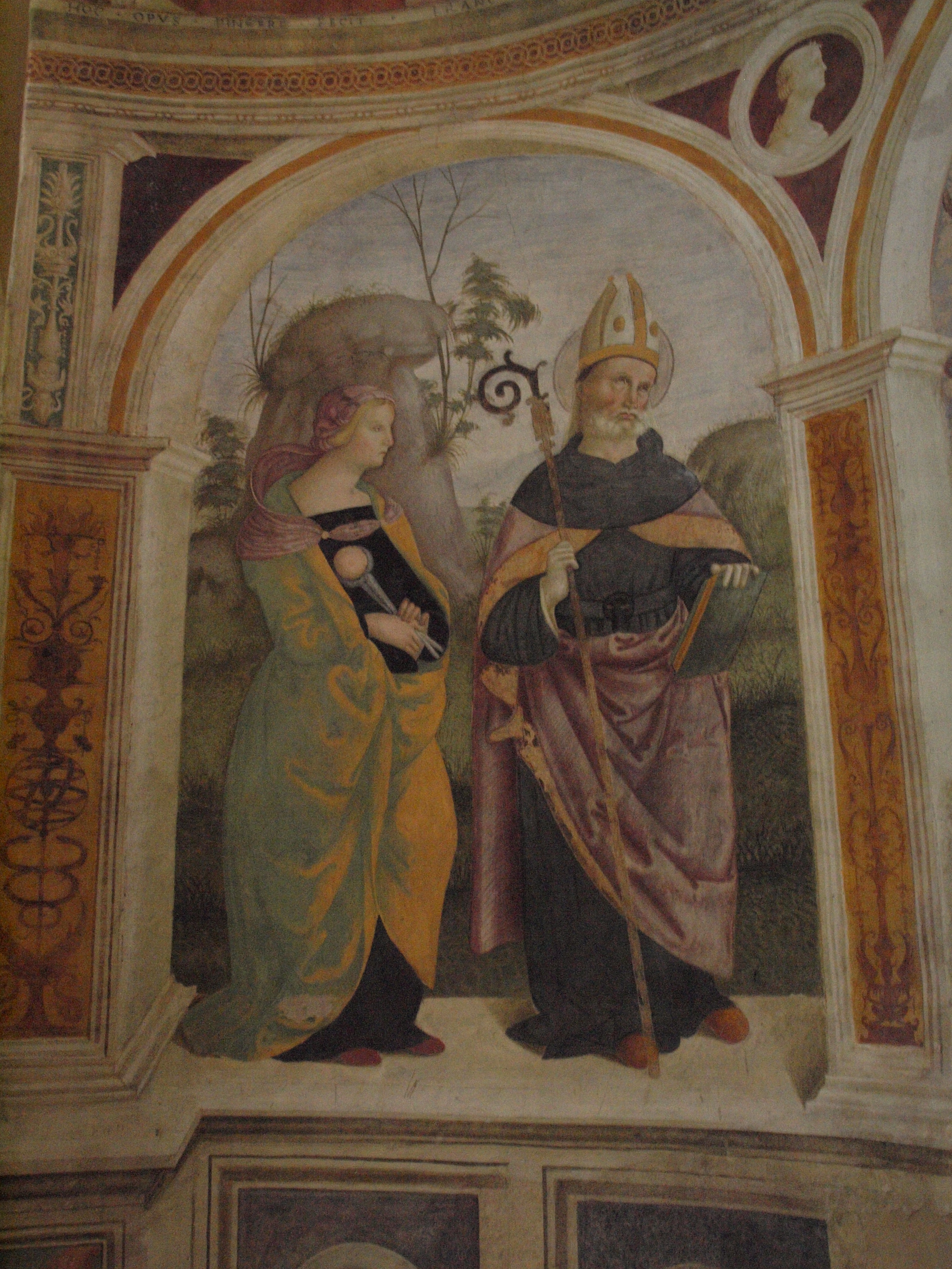 St. Agatha, St. Augustine